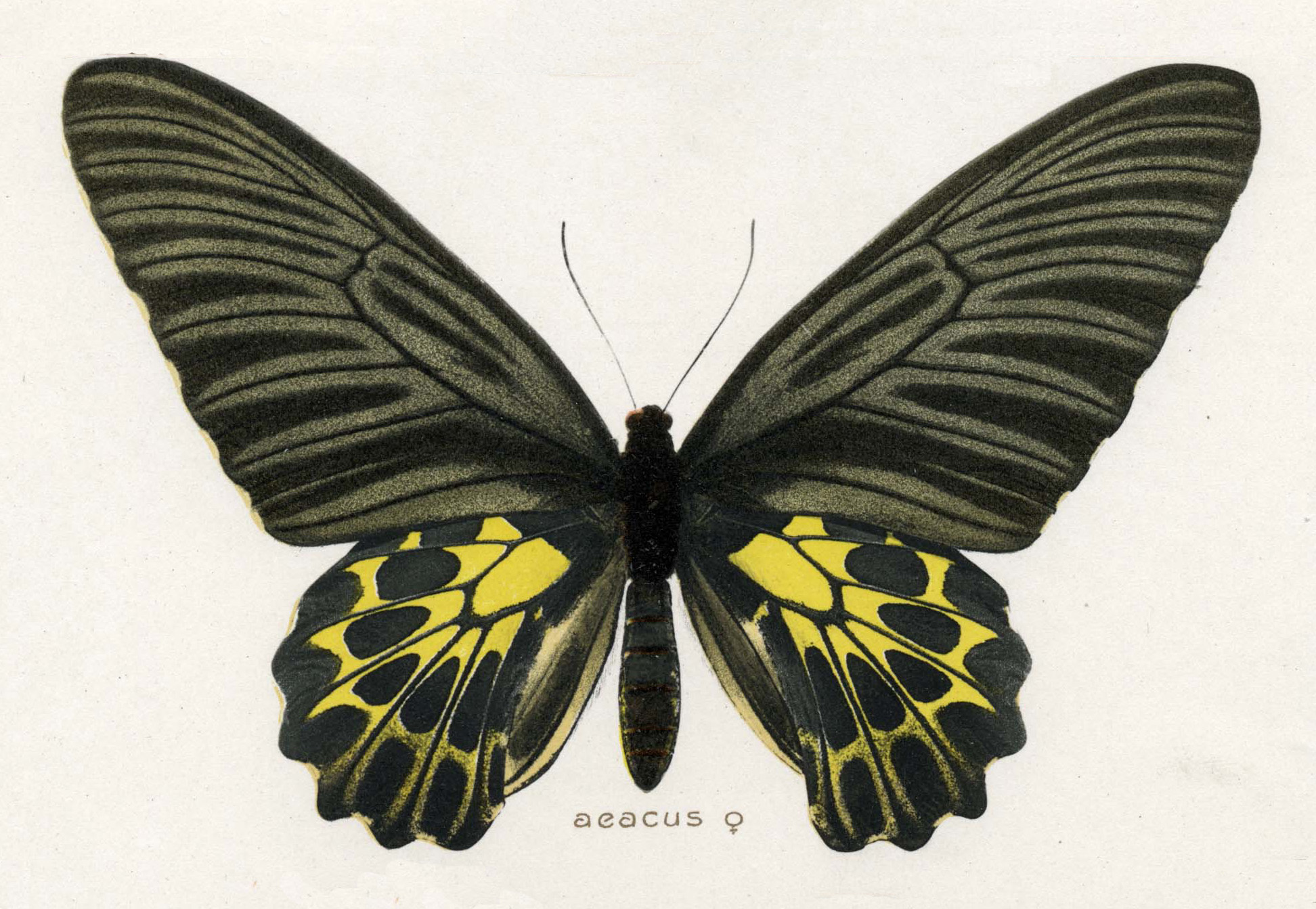 Golden Birdwing, female, upperwing